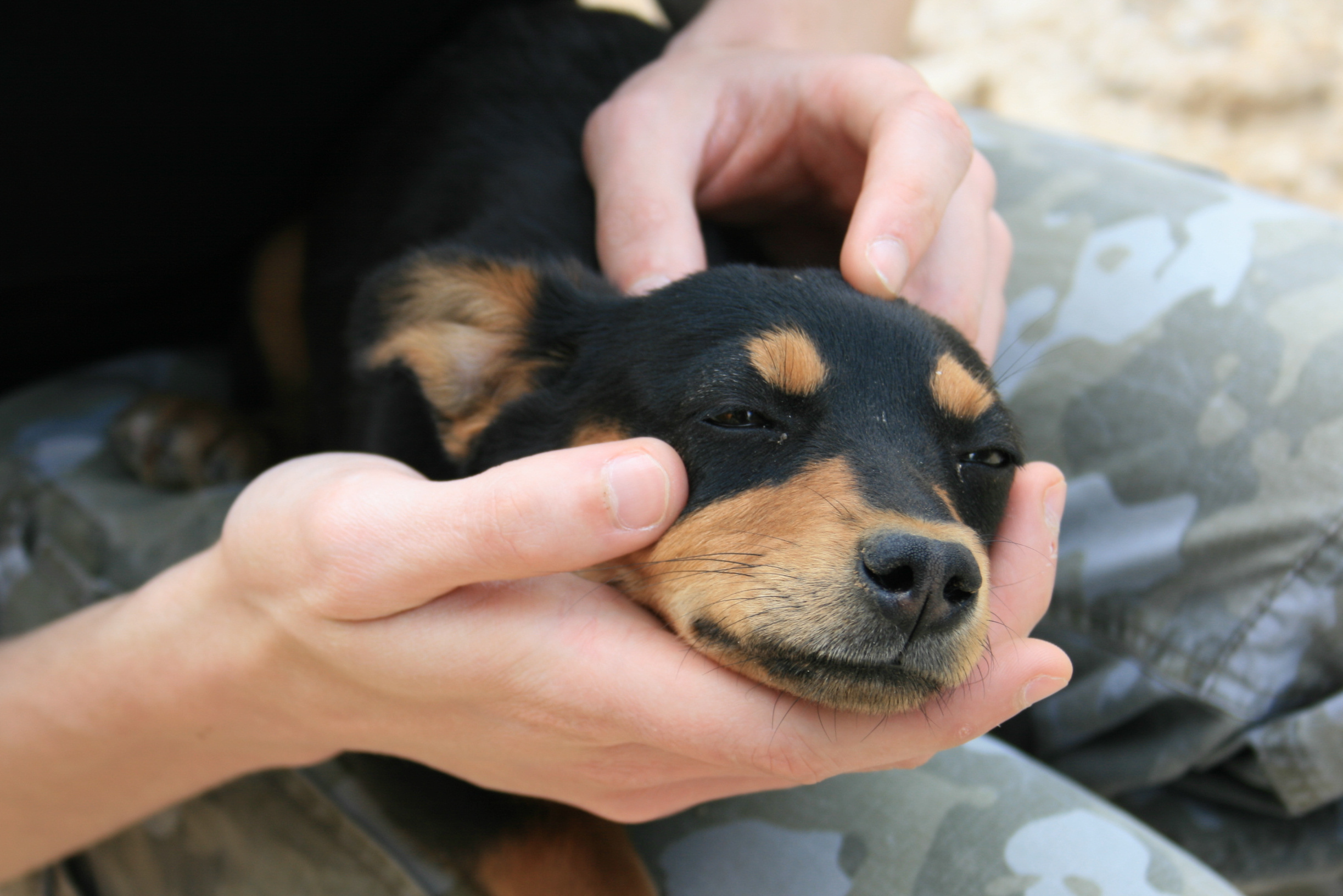 Portrait of a Dobermann puppy near Coltan.